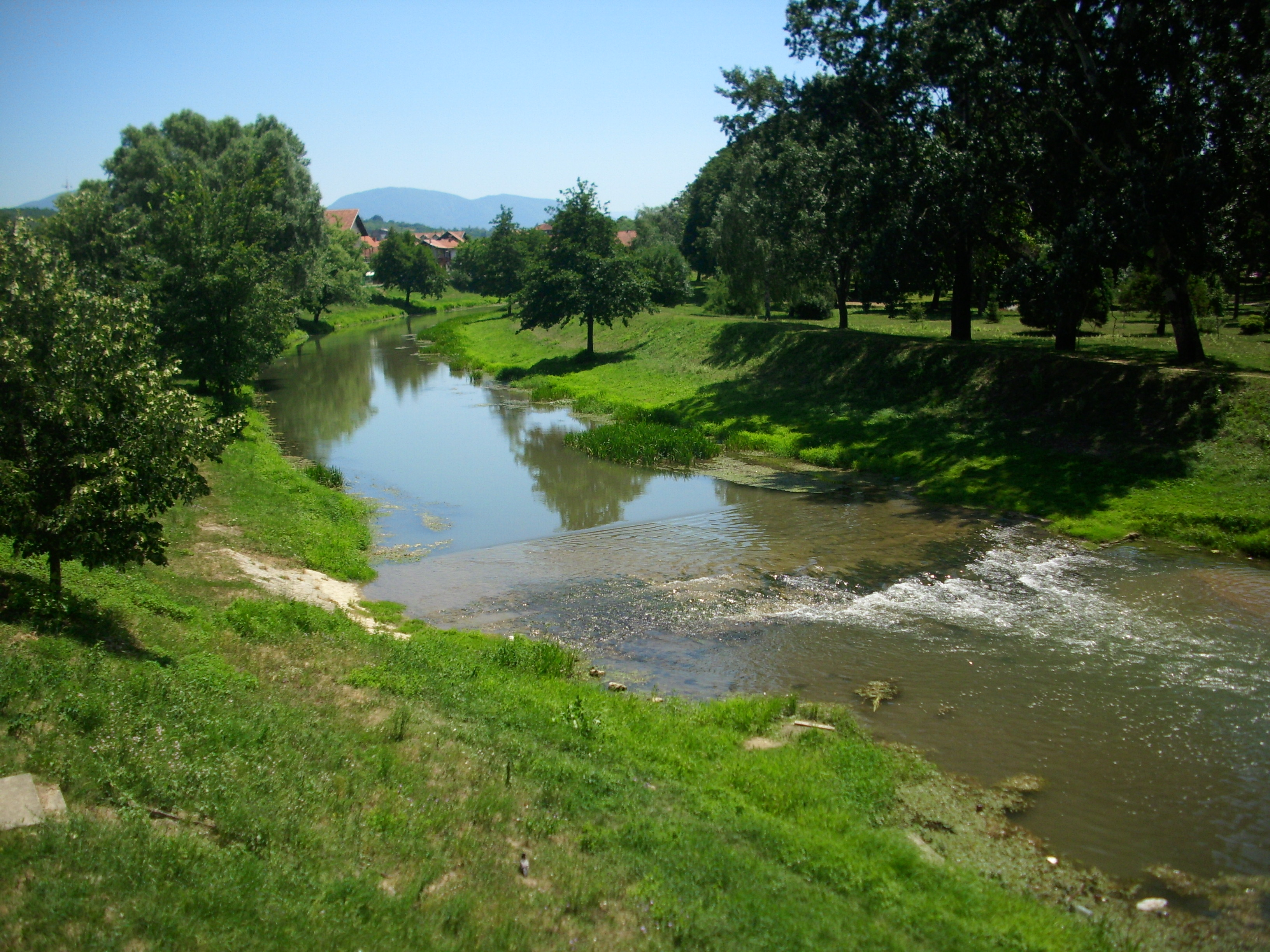 River Mlava in Petrovac